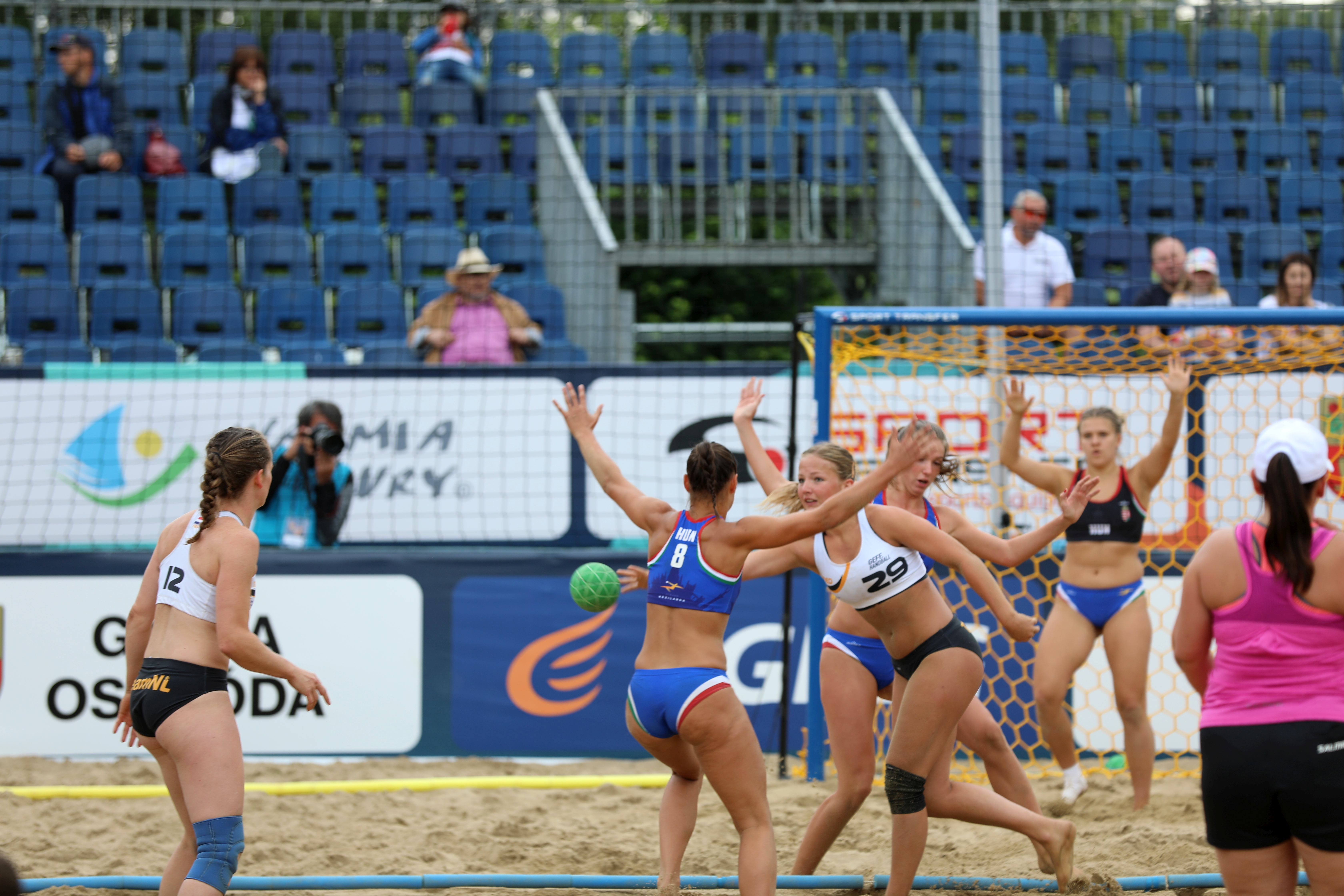 Beach handball Euro; Day 5: 6 July 2019 – Semifinal Women – Hungary-Netherlands 2:0 (19:16, 15:12)